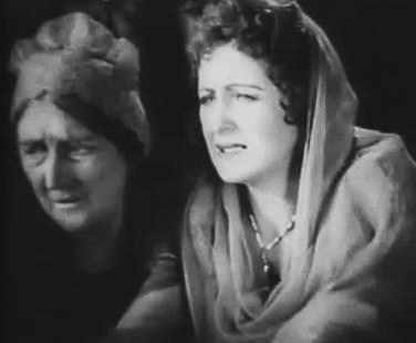 Tempe Pigott (left) and Billie Dove in The Black Pirate (1926) - cropped screenshot